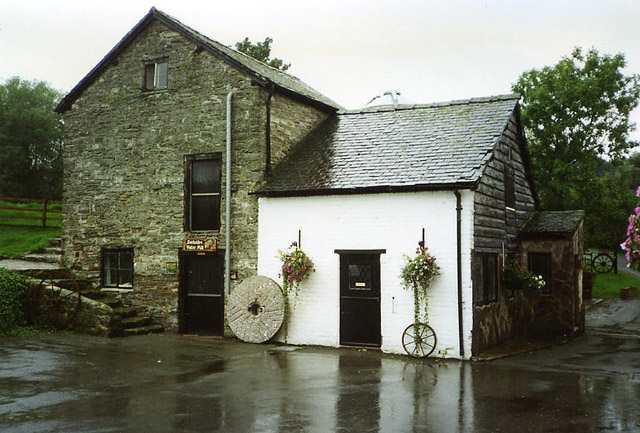 Church Stoke: Bacheldre Mill Listed in Walter Minchinton’s ‘A Guide to Industrial Archaeological Sites in Britain’, 1984, but since closed to the public. The mill retains or retained an all-iron overshot waterwheel and gearing